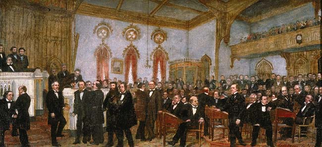 'Signing the Ordinance of Secession of Louisiana, January 26, 1861', Baton Rouge, Louisiana, oil on canvas painting by Enoch Wood Perry, Jr., 1861